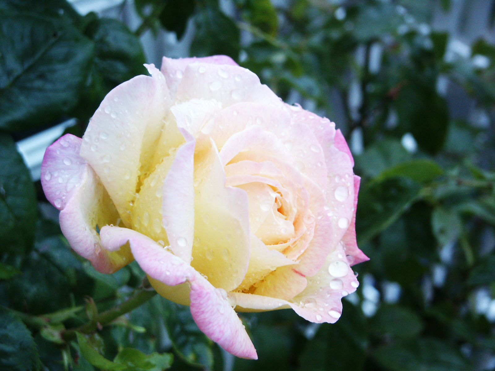 Flower of 'Peace' (AKA 'Gioa', 'Gloria dei')